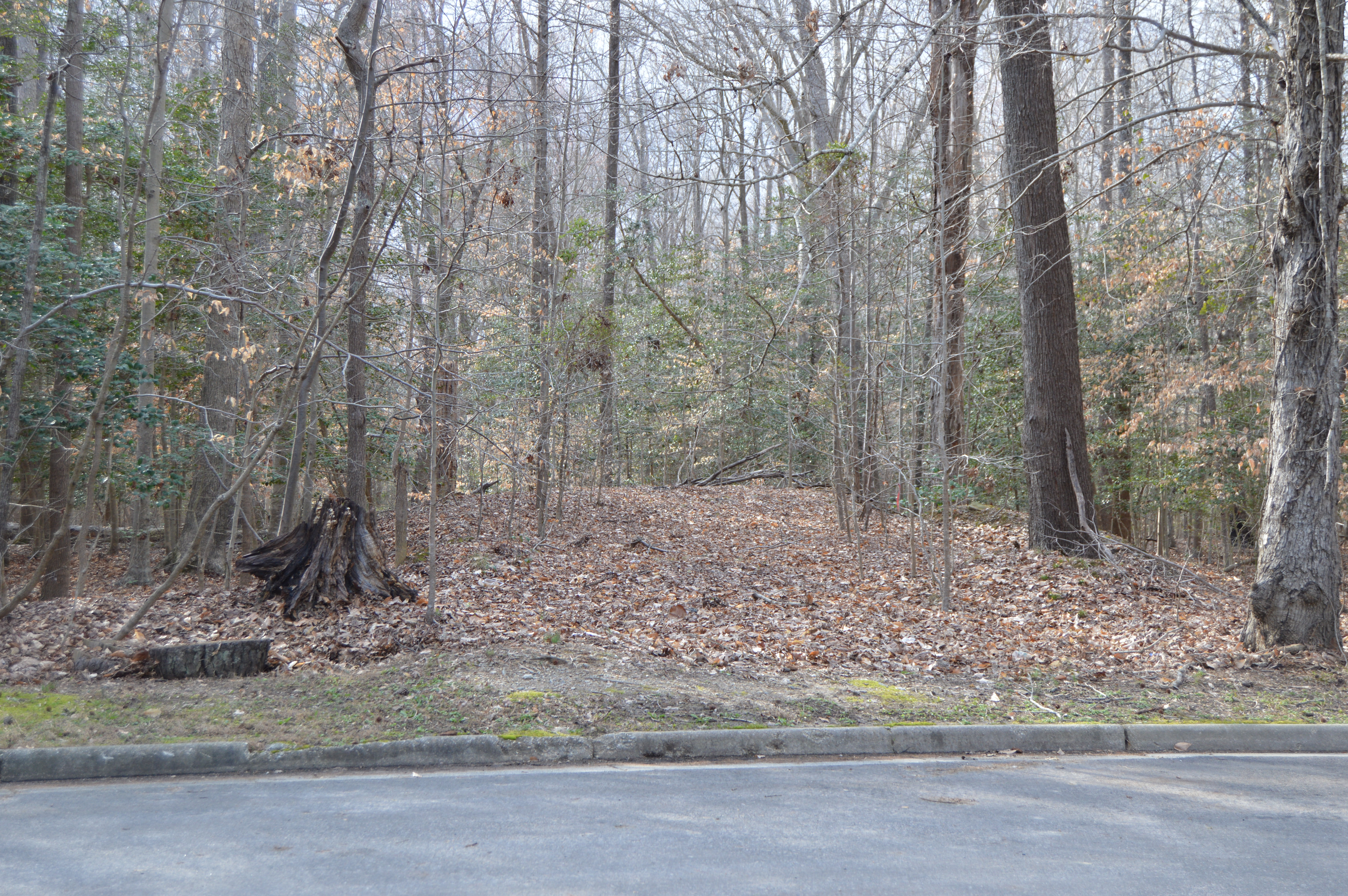 Overview of the Southern Terminal Redoubt, located at the end of Enterprise Drive in Newport News, Virginia, United States. Built during the American Civil War to defend against Union advances, it is listed on the National Register of Historic Places.